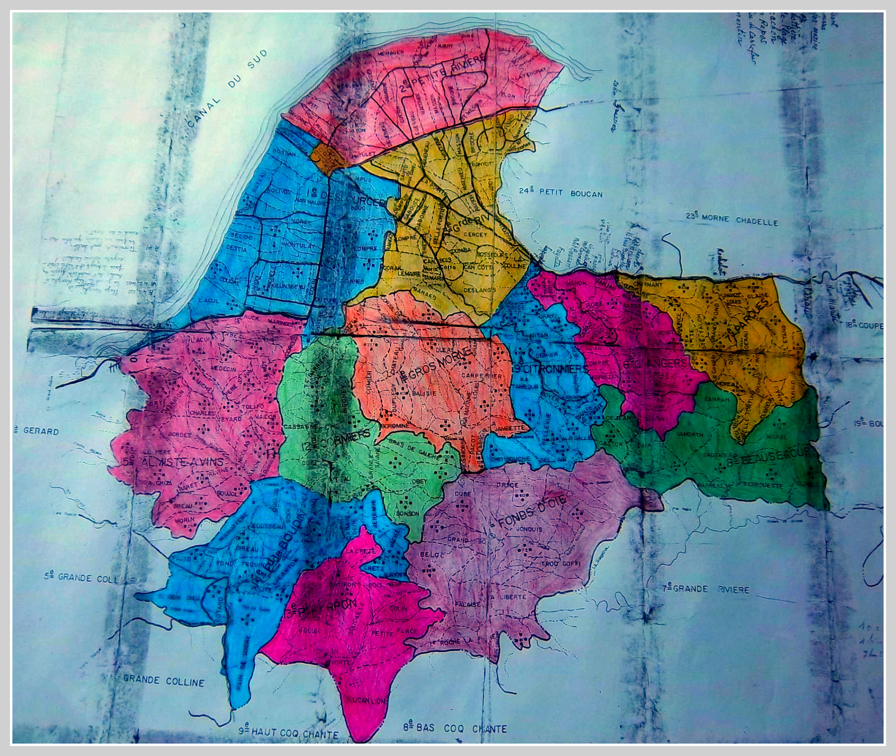 Cartography of Léogâne